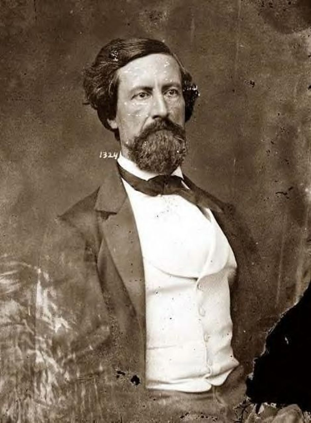 John Clifford Pemberton after the Civil War.